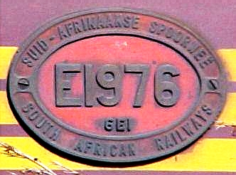 SAR Class 6E1 Series 8 E1976 number plateLocation: Balfour, GautengRebuilding: E1976 re-entered service in 2006 after being rebuilt to Class 18E 18-256